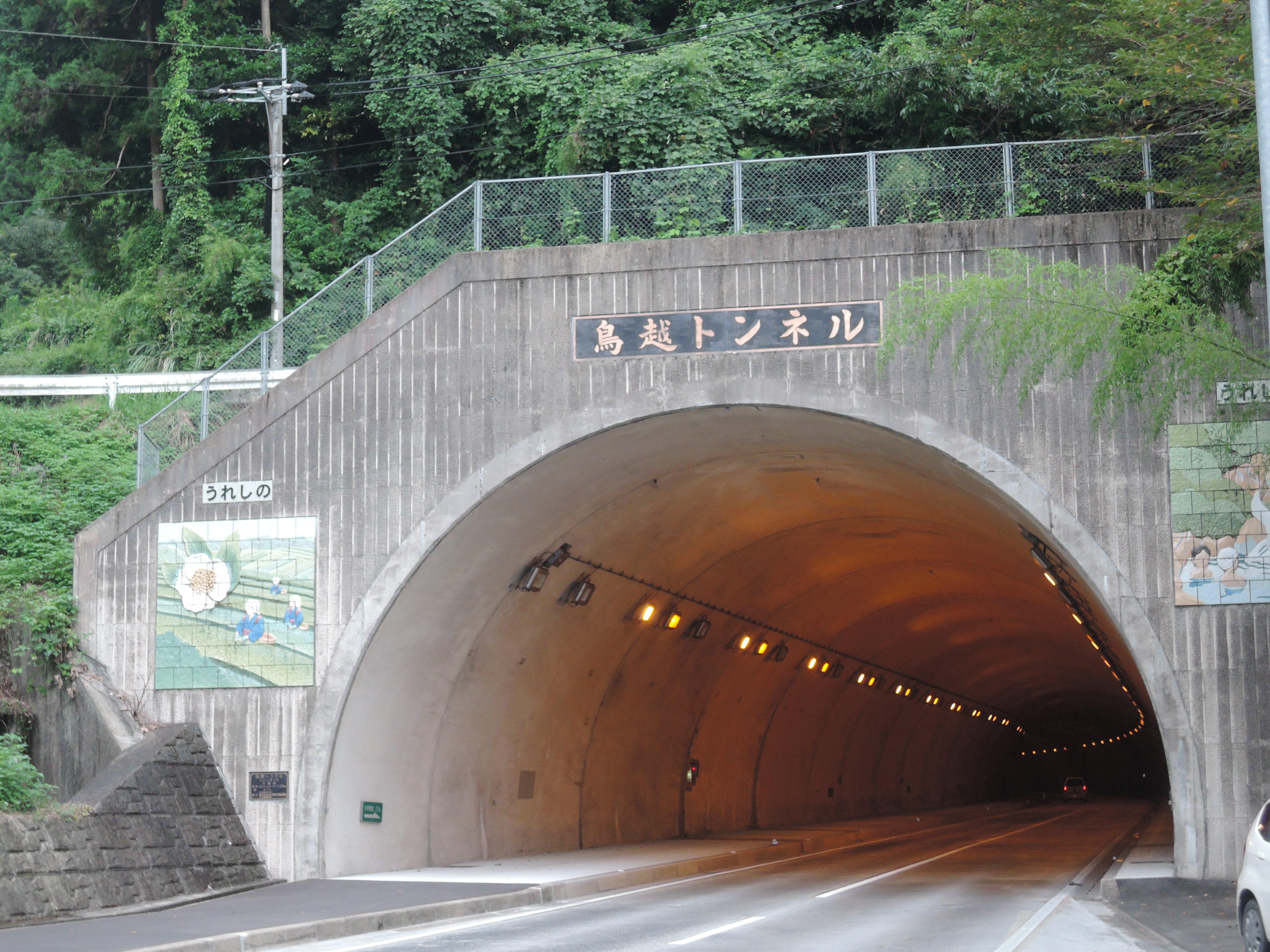 Torigoe tunnel (Saga Prefectural road; Route 41)